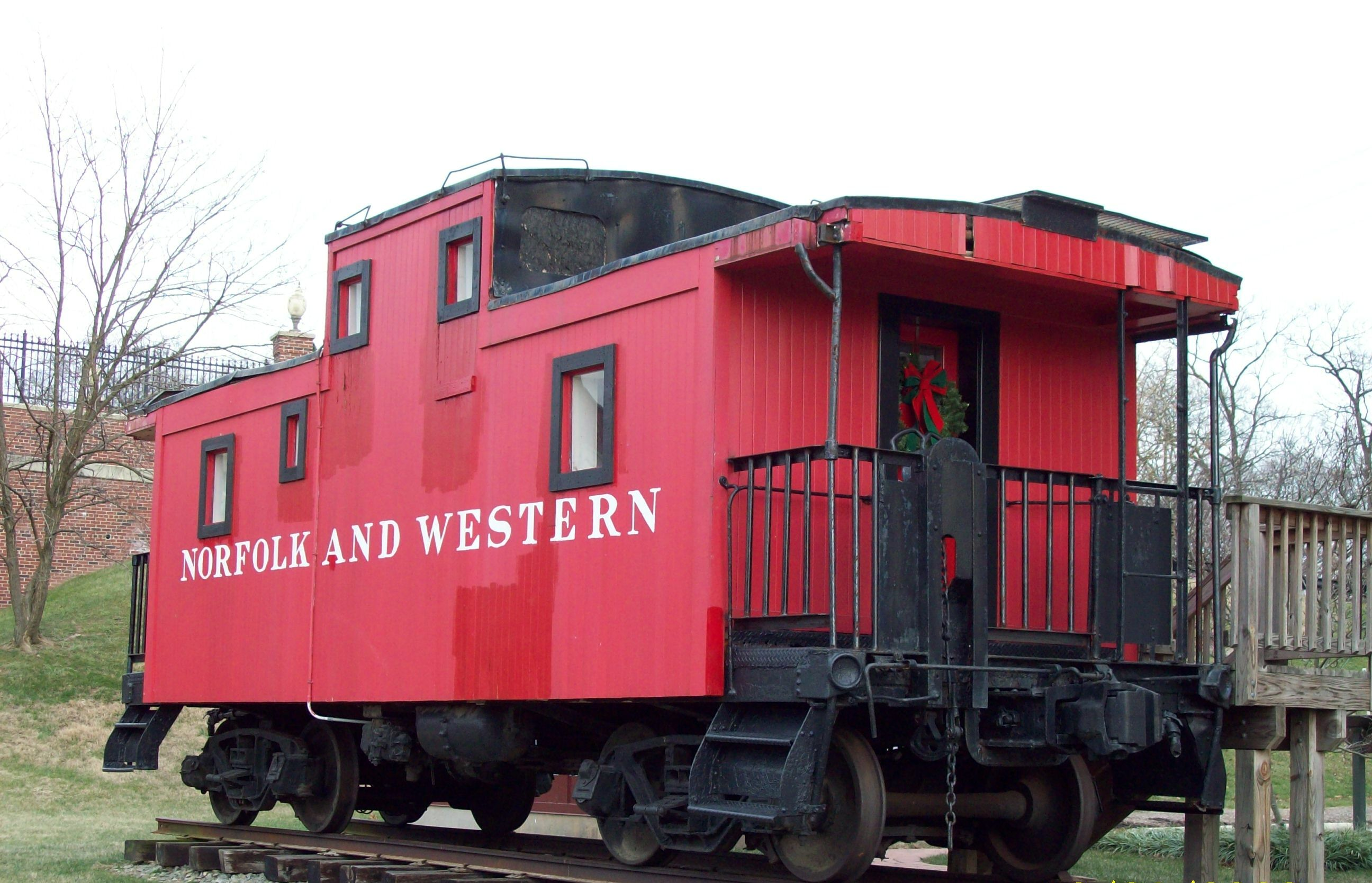 Bowie Railroad Buildings - Caboose, Bowie, Maryland, December 2008